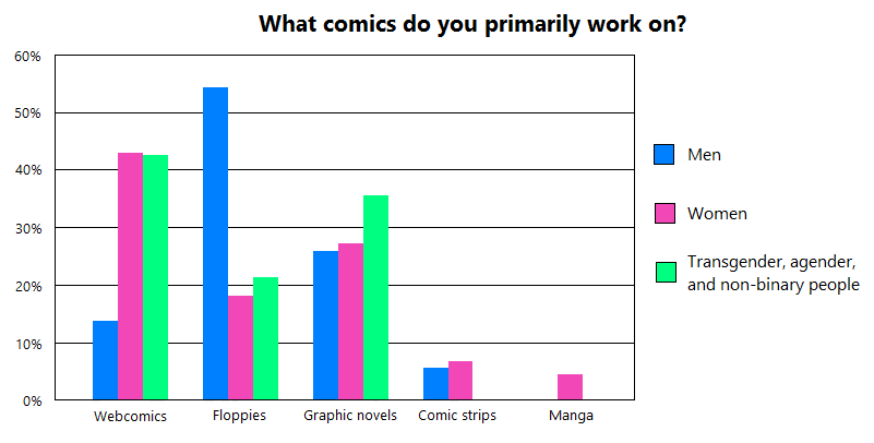 In June 2015, David Harper explored data to see if gender plays a part in determining how much an comics artist earns. In his research, he found that certain comics formats (webcomic, graphic novel, manga, etc.) are more popular among different genders. For example: Webcomics and graphic novels are much more popular to women and trans* people than traditional floppies. The green group was originally defined as "trans*, non-binary and agender responders" and "anyone but men and women who responded". This group was referred to as "trans, nonbinary, and agender people" by Comics Alliance. The data displayed in the graph was directly copied from Harper's article, but the graph itself is original work (see line thickness, color, fonts, and order of topics, as well as text differences). Guzdam, de, Jennifer (2015-06-23). Where’s the Money in Comics? This Survey Breaks it Down by Gender. Comics Alliance. Harper, David (2015-06-16). SKTCHD Survey: Is Gender a Determinant for How Much a Comic Artist Earns?. .